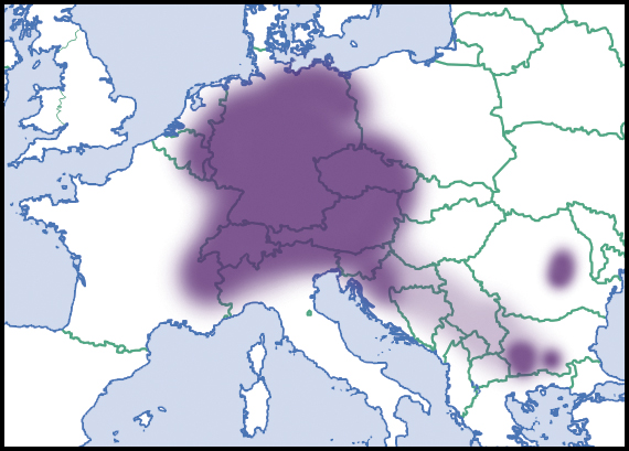 Eucobresia diaphana (Draparnaud, 1805). Distributional range in Europe, scientific state of knowledge of 2012. Source description in English. Light colour indicated rare occurrences or regions where the species could eventually be expected to occur. Dark colour indicated relatively reliable occurrences, as well as regions where the species was expected to occur, and where the species was not known to be extremely rare. Dark colour indications were not necessarily based on published records. Species summary in AnimalBase